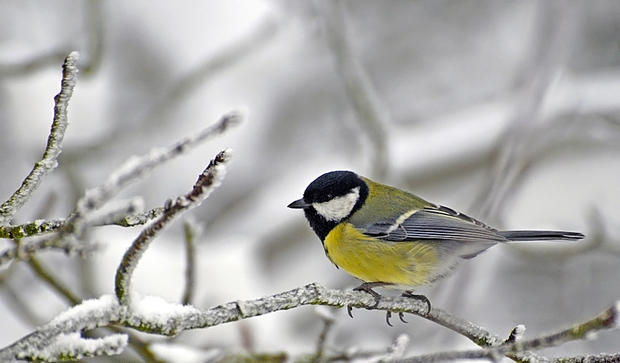 Picture of Great Tit (Parus major) in the snow during Winter